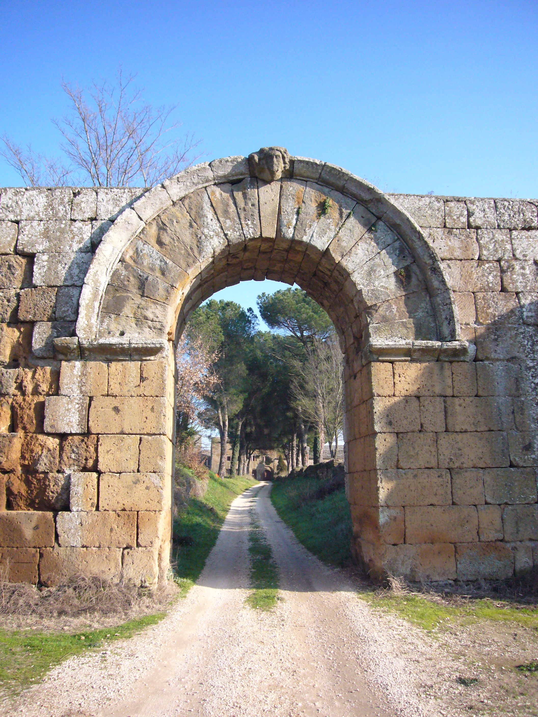 Entrance gate to Falerii Novi. By Howard Hudson